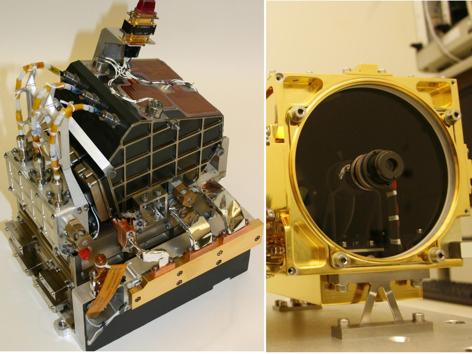 Body and Mast Units of ChemCam Instrument The two main parts of the ChemCam laser instrument for NASA's Mars Science Laboratory mission are shown in this combined image. On the left is the body unit, which goes inside the body of the mission's Mars rover, Curiosity. The mast unit on the right goes onto the rover's remote-sensing mast. The mast unit, 37 centimeters (14.5 inches) long, contains ChemCam's laser, imager and telescope. It can be pointed at rock and soil targets in the vicinity of the rover from its position on top of the mast, 2 meters (6.6 feet) above the ground. Laser pulses vaporize a pinhead-size target up to 7 meters (32 feet) away, producing a flash of light from the material ionized by the laser. The telescope observes that flash of light. An optical fiber from the mast unit delivers the telescope's observation to the body unit, which analyzes the light from the ionized target material to identify chemical elements in the target. The body unit is 20 centimeters (7.9 inches) long. ChemCam was conceived, designed and built by a U.S.-French team led by Los Alamos National Laboratory in Los Alamos, N. M.; NASA's Jet Propulsion Laboratory in Pasadena, Calif.; the Centre National d'Études Spatiales (the French government space agency); and the Centre d'Étude Spatiale des Rayonnements at the Observatoire Midi-Pyrénées, Toulouse, France. JPL, a division of the California Institute of Technology in Pasadena, manages the Mars Science Laboratory mission for the NASA Science Mission Directorate, Washington. This mission will land a rover named Curiosity on Mars in August 2012. Researchers will use the tools on the rover to study whether the landing region has had environmental conditions favorable for supporting microbial life and favorable for preserving clues about whether life existed.